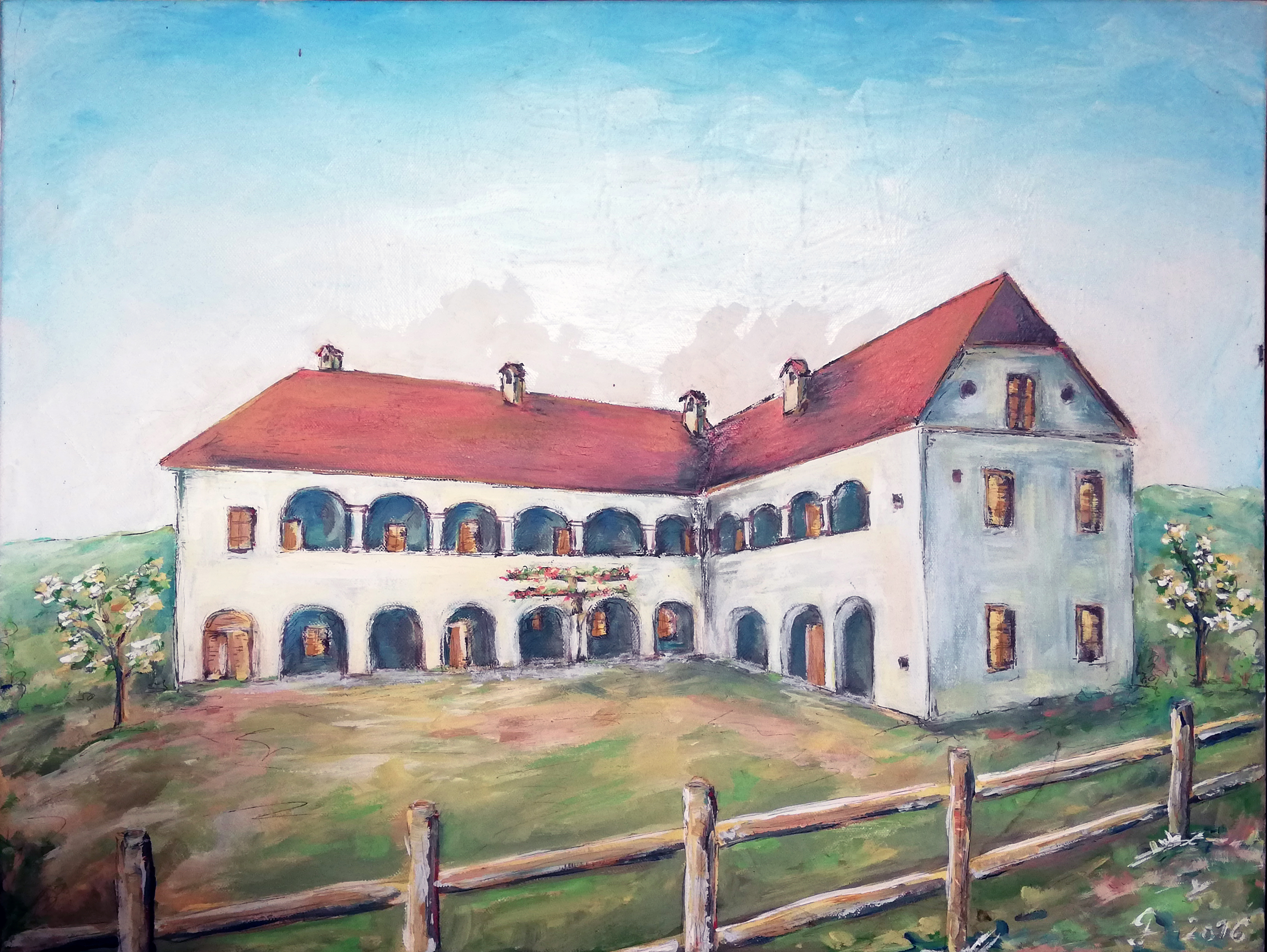 Dvorec Velika Vas, katero je narisal Alojz Pirc.